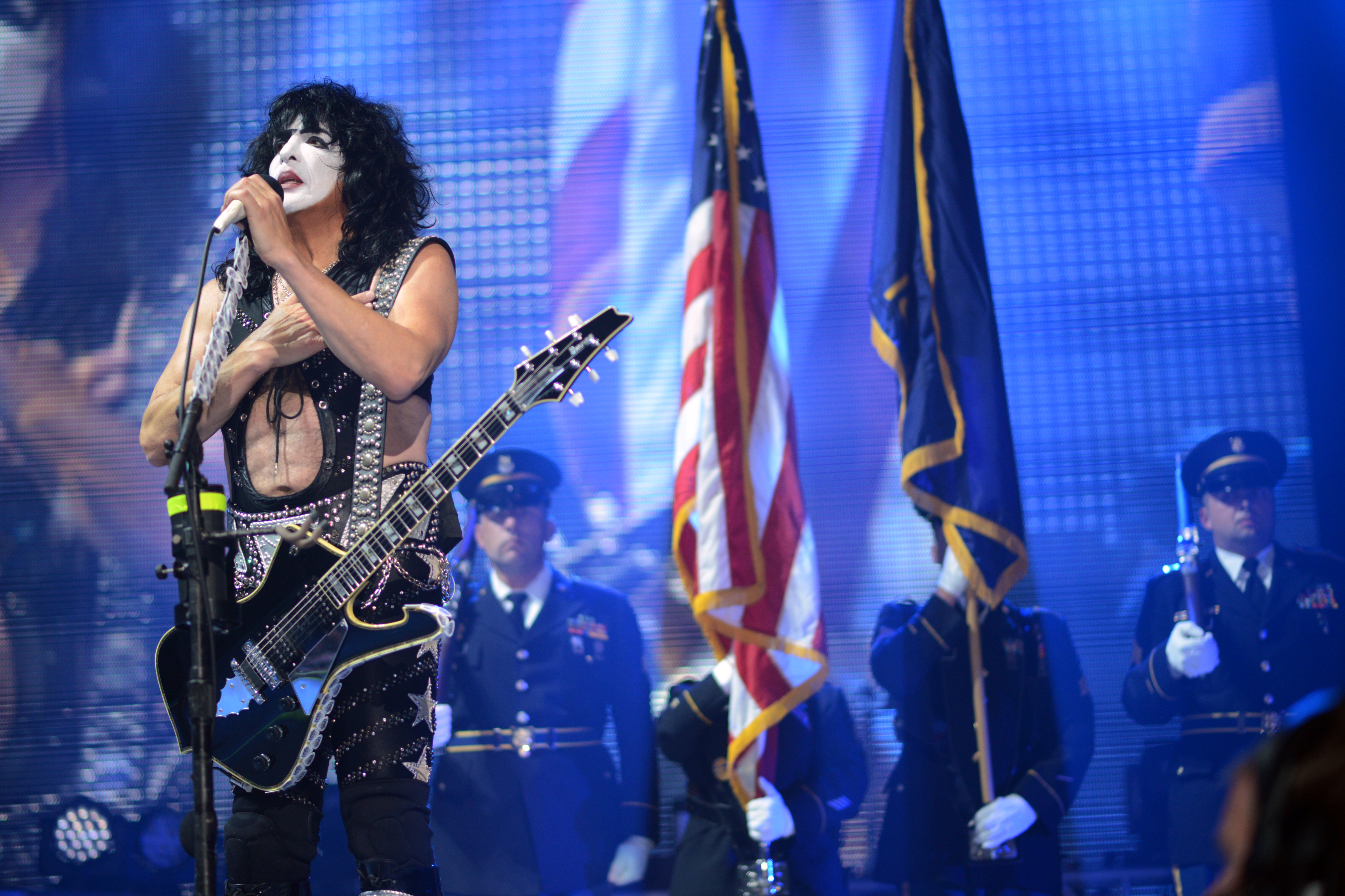 Members of the Oregon Army National Guard display the American flag on stage behind Paul Stanley, with the band KISS, as he leads the audience in the Pledge of Allegiance during the “Freedom to Rock” concert at Matthew Knight Arena in Eugene, Oregon, July 9, 2016. The Oregon National Guard Soldiers also displayed the American flag while KISS performed the National Anthem during a patriotic tribute to U.S. military and veterans at the concert. (Photo by Maj. W. Chris Clyne, Oregon Army National Guard) Unit: Oregon National Guard Public Affairs Office